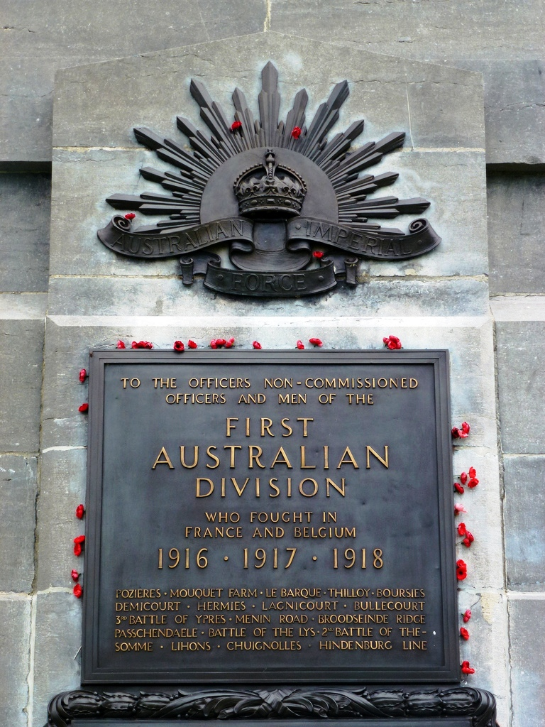 Australian War Memorial at Pozieres, France.